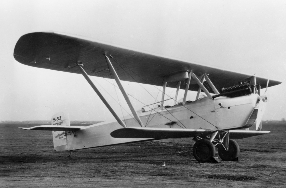 Photo of Sikorsky S-32 single engine aircraft